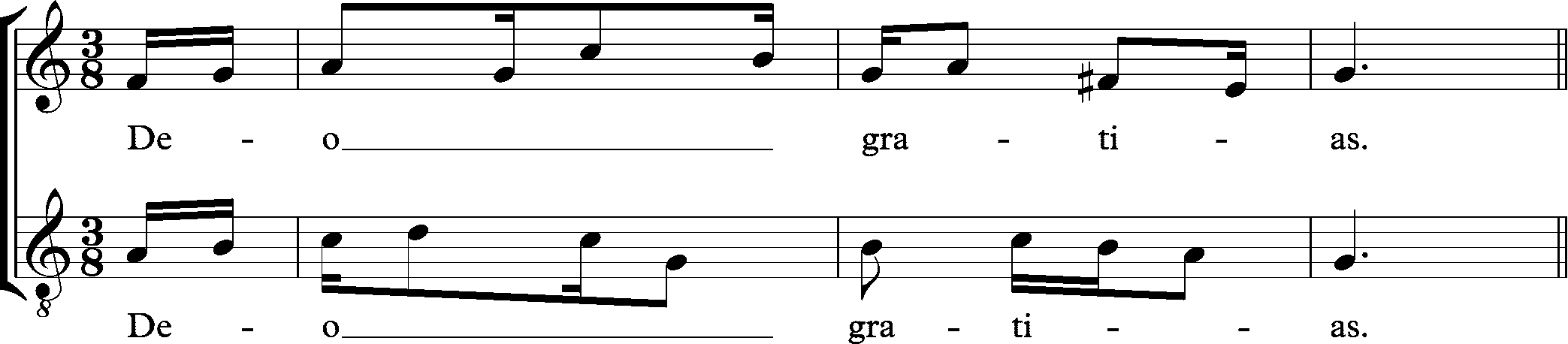 Agincourt carol - Deo gracias